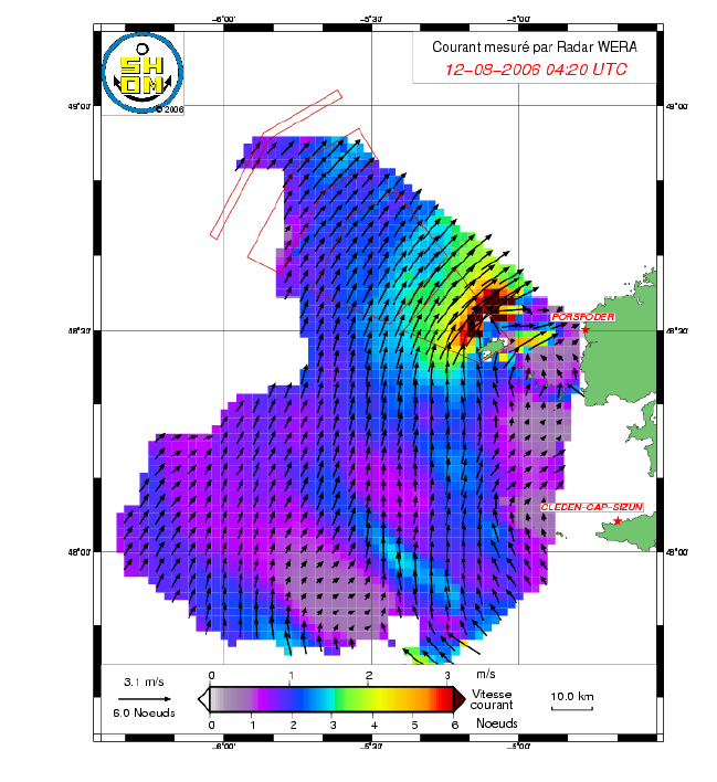 Picture generated automatically as part of the VIGICOTE system operated by Actimar S.A. on behalf of SHOM (France), a project managed by the author. It shows the surface currents, mainly due to tides, on 12 August 2006, as measured by a WERA HF radar system. The blank areas are areas without measurements. The maximum surface current is larger than 3 m/s (dark red).